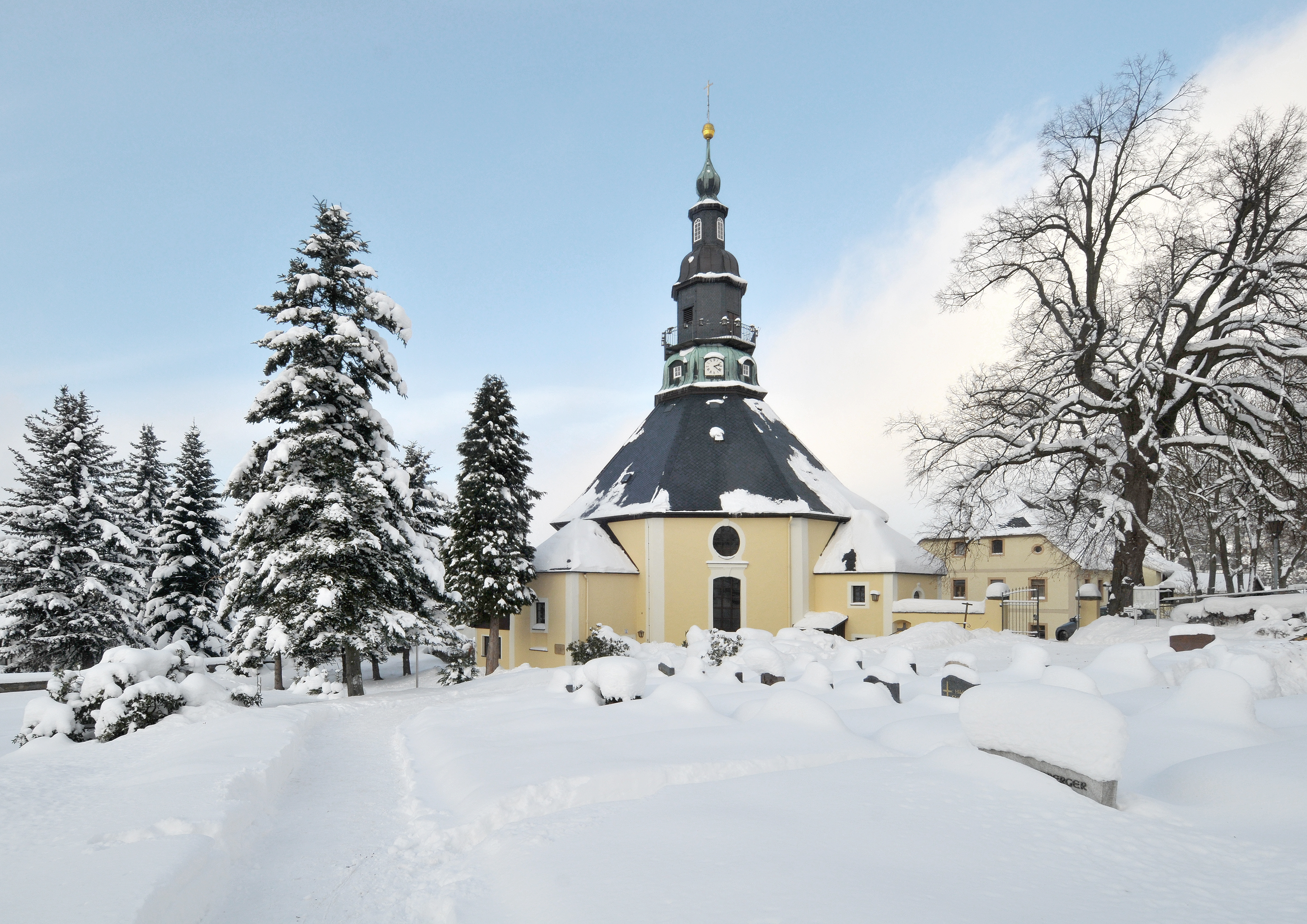 The Church from 1779 stands together with the graveyard in the center by the town of Seiffen. Seiffen is a centre of the wooden toy industry in Germany. The town is located in the district of Erzgebirgskreis, which is the south-center of the Free State of Saxony in Germany. Seiffen sits in the heart of the Erzgebirge, or the Ore Mountains, which are famous for many Christmas traditions.